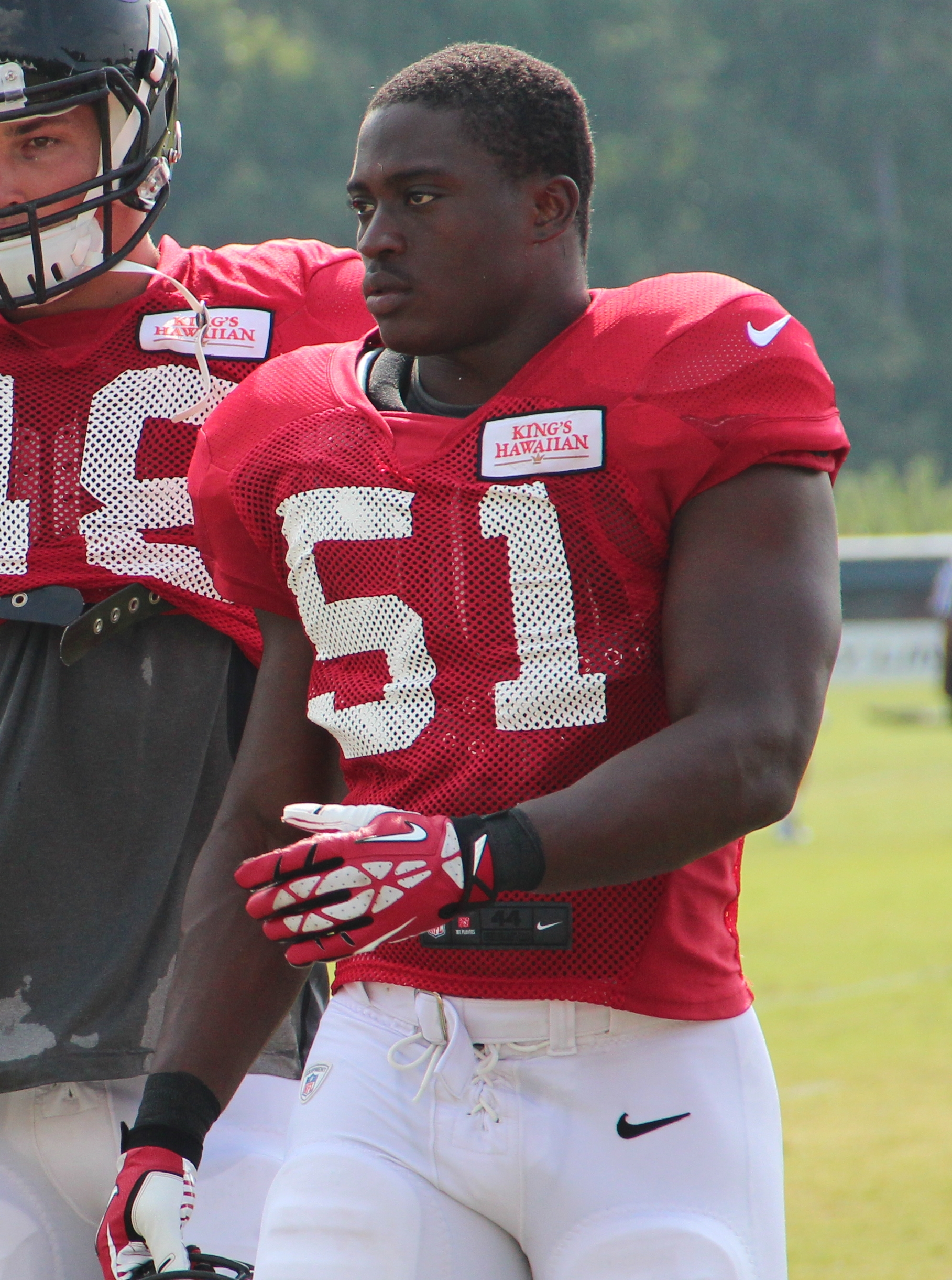 Marquis Spruill in training camp, 2014